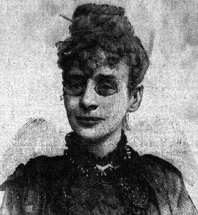 Portrait of the French feminist Marie-Rose Astié de Valsayre (1846-1939)